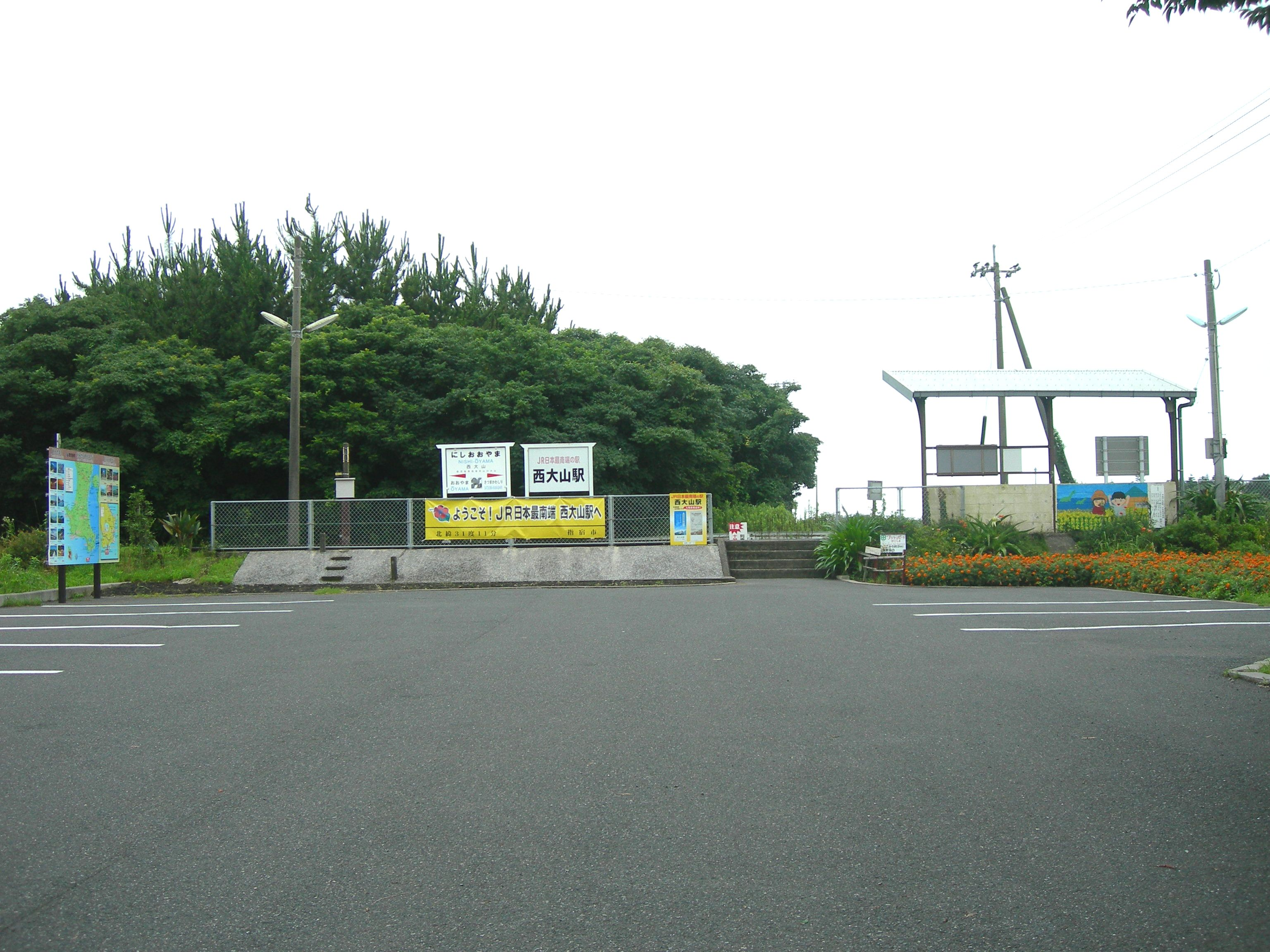 Nishi-Oyama Station